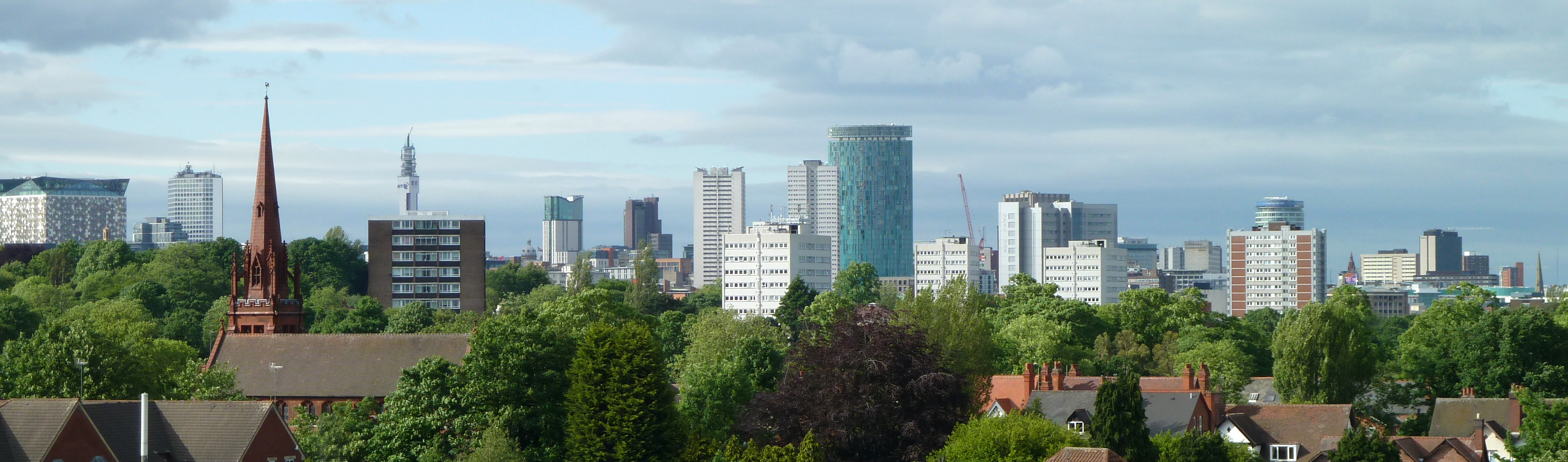 The skyline of Birmingham seen from Edgbaston Cricket Ground